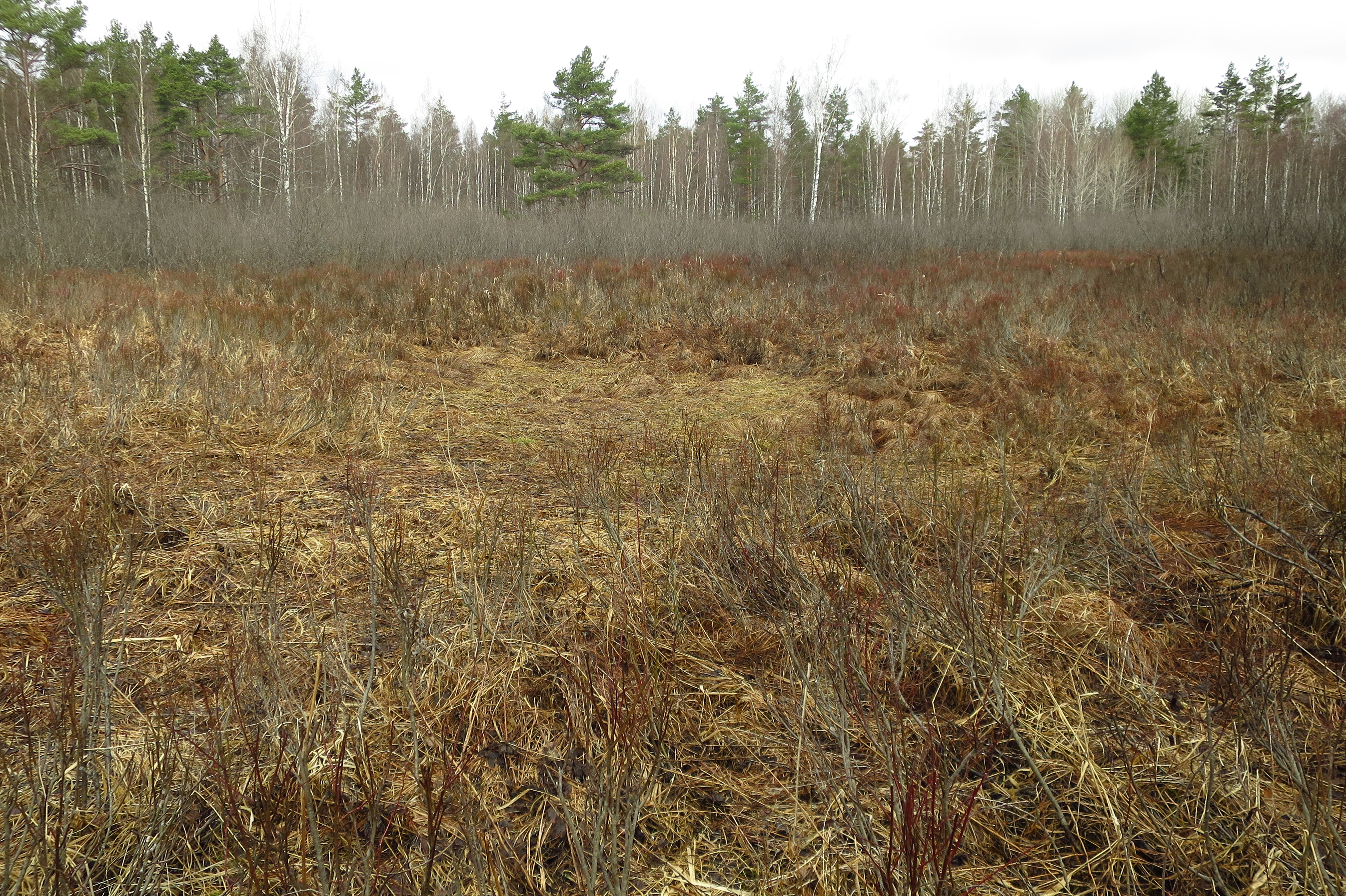 Pajustik Aniste karstinõos Savalduma karsitala kaitsealal